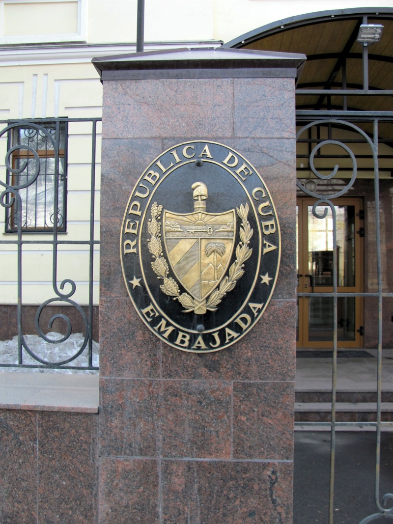 Embassy of Cuba in Moscow (Bolshaya Ordynka Street, 66)